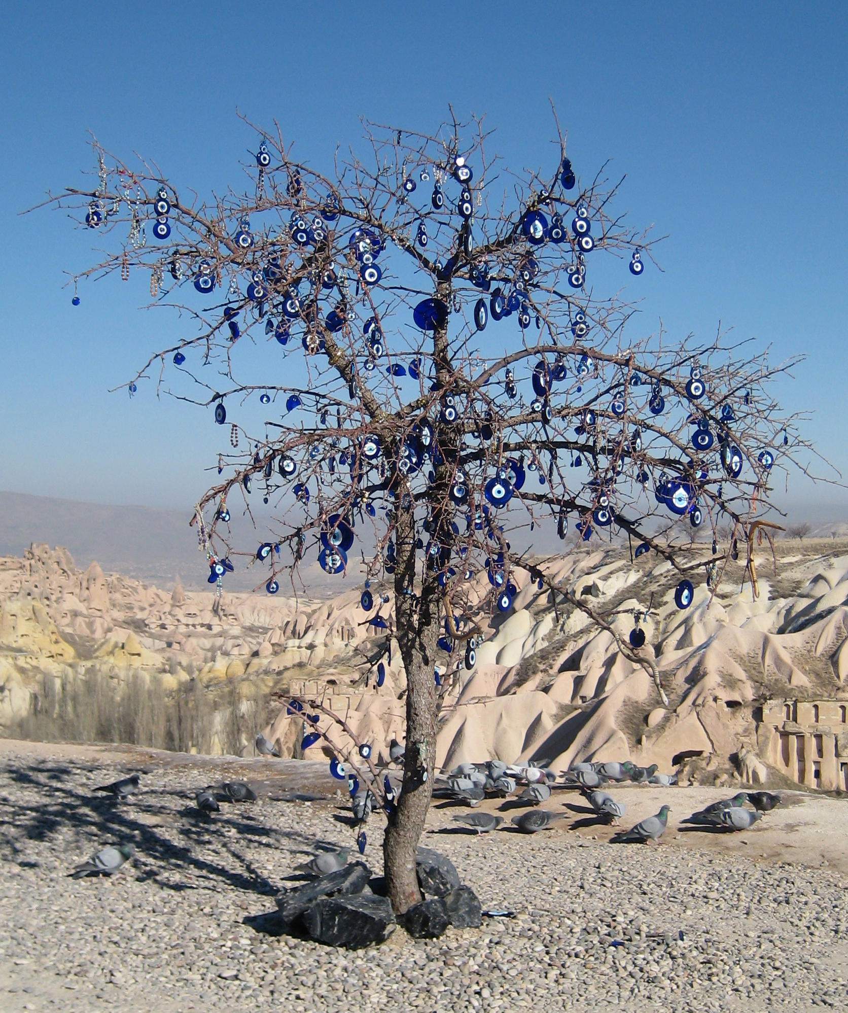 Tree with apotropaion eye in Cappadocia, Pigeon valley near Uçhisar